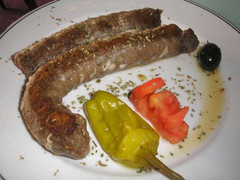 Loukaniko Limonato These homemade sausages are among our favorite things at Panos Kleftiko, pictured with peppers and an olive.